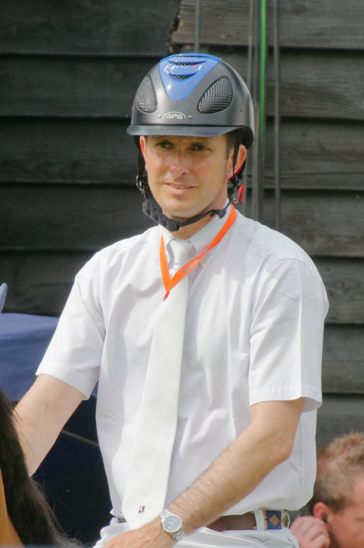 Internationales Pfingstturnier Wiesbaden 2014 The making of this document was supported by the Community-Budget of Wikimedia Germany.